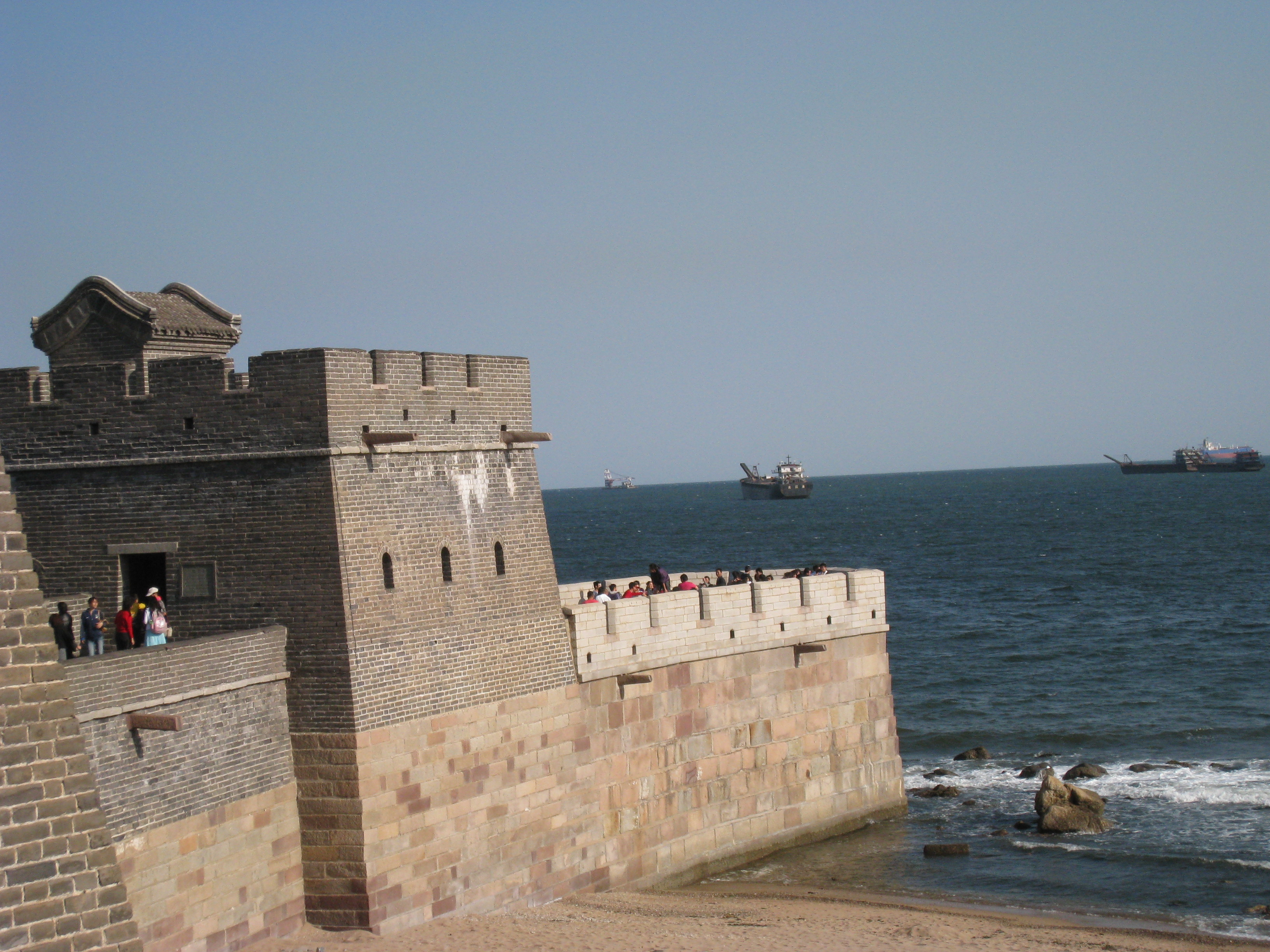 The Great Wall of China's eastern end is on the shore of the Bohai Sea